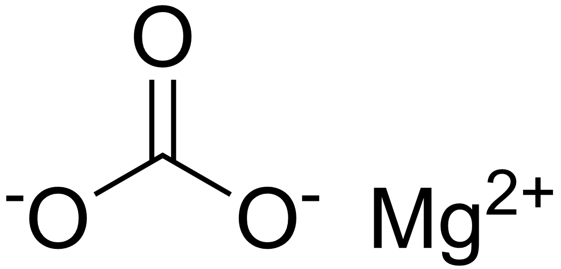 chemical structure of magnesium carbonate